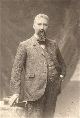 Photograph of Richard Joshua Reynolds, born at Critz, Virginia, in 1850, and founder of the R. J. Reynolds Tobacco Company of Winston (later Winston-Salem), North Carolina. Courtesy of the Free State of Patrick.